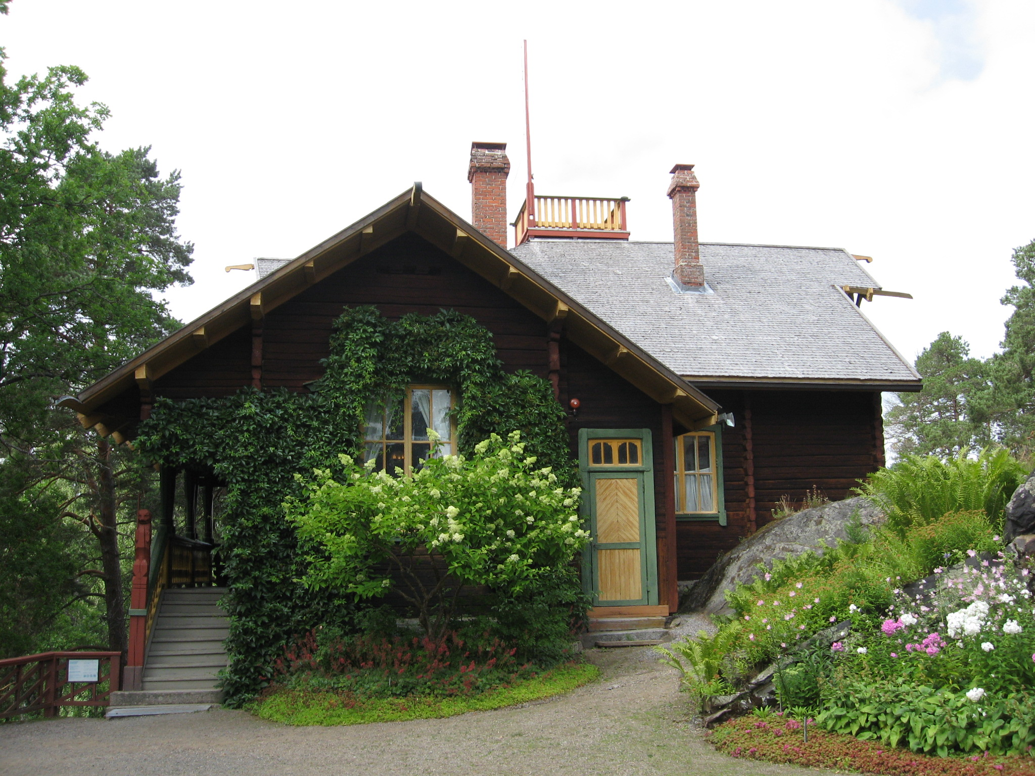 Visavuori, the home of Emil Wikström